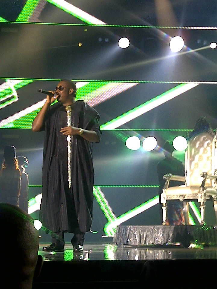 Don Jazz at ICC Durban 2014 MAMAs